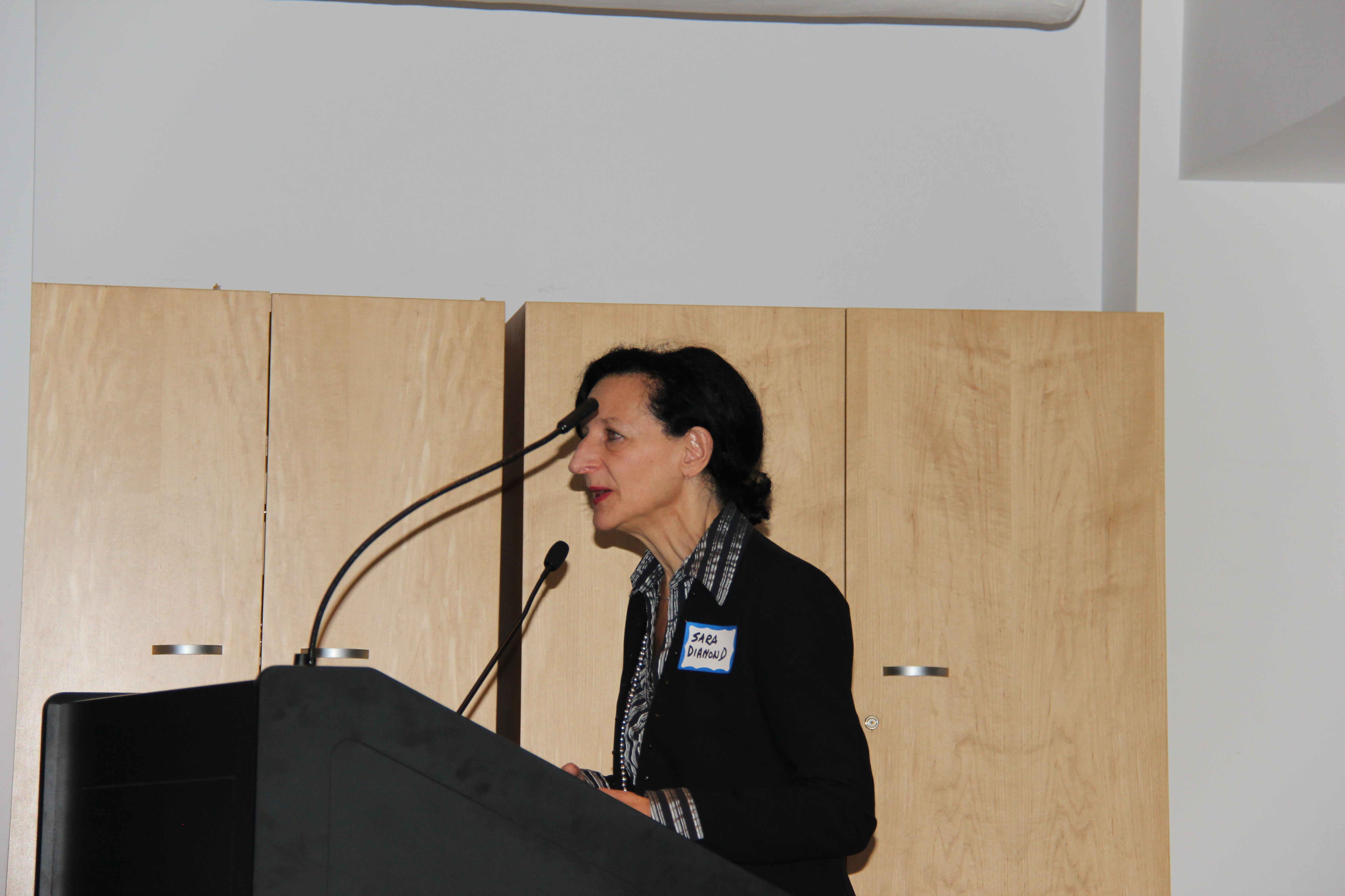 Sara Diamond speaking at a reception for the calendar project in 2014